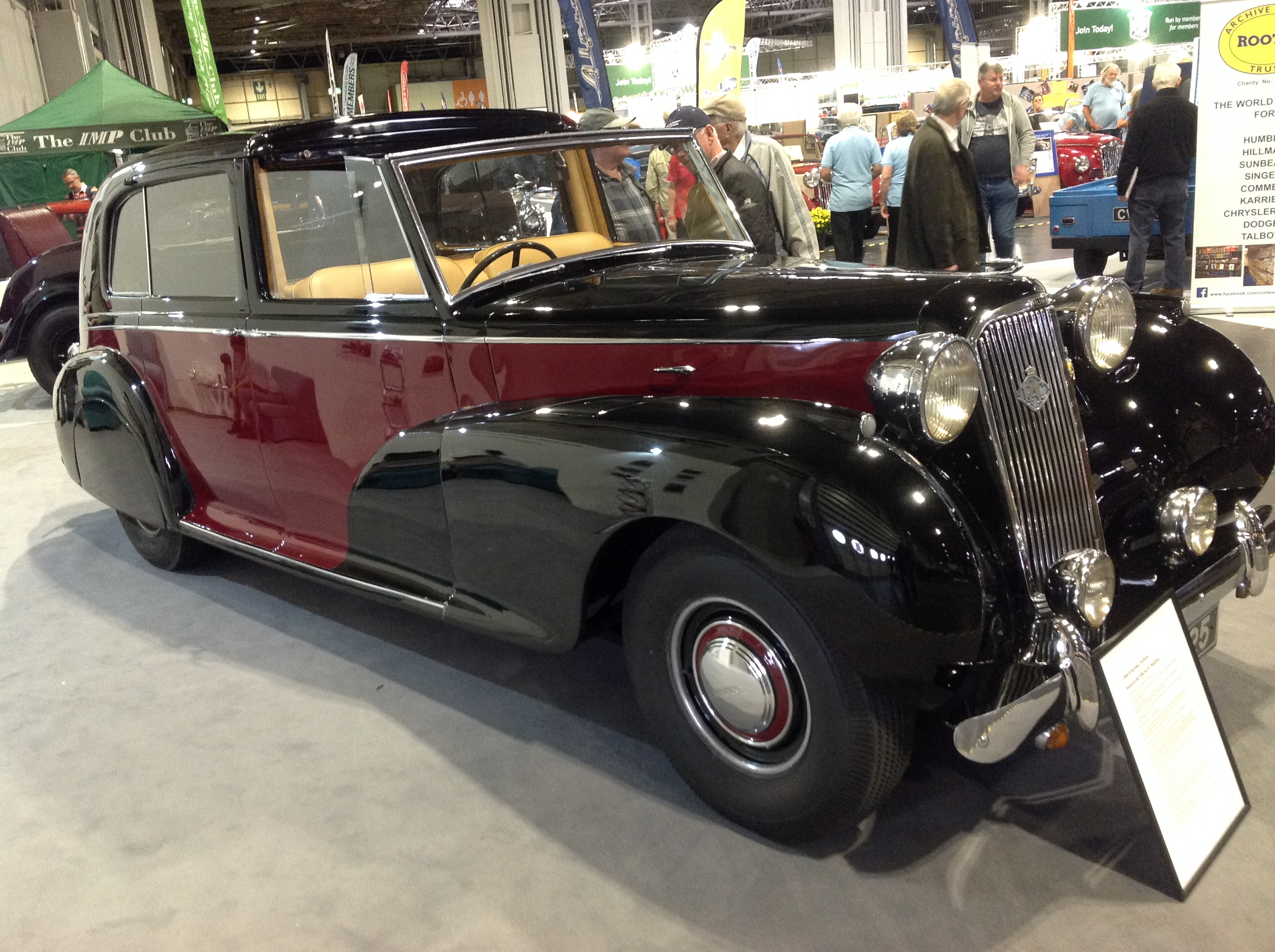 1947 Humber Pullman sedanca de ville by H J Mulliner The Lancaster Insurance Classic Car Show, NEC Birmingham, Friday 8th November 2019.